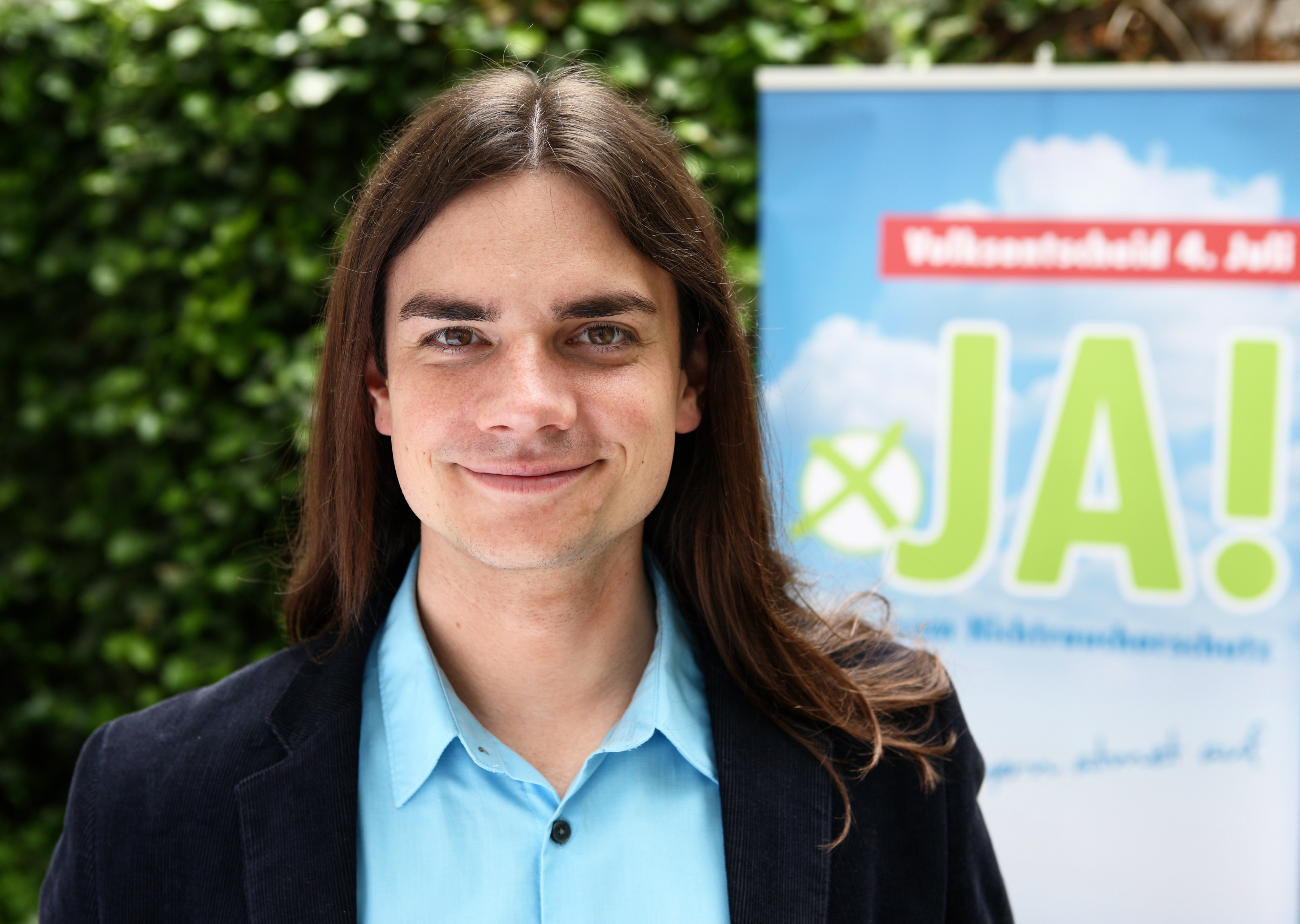 Sebastian Frankenberger, initiator of the referendum “Für echten Nichtraucherschutz!”.